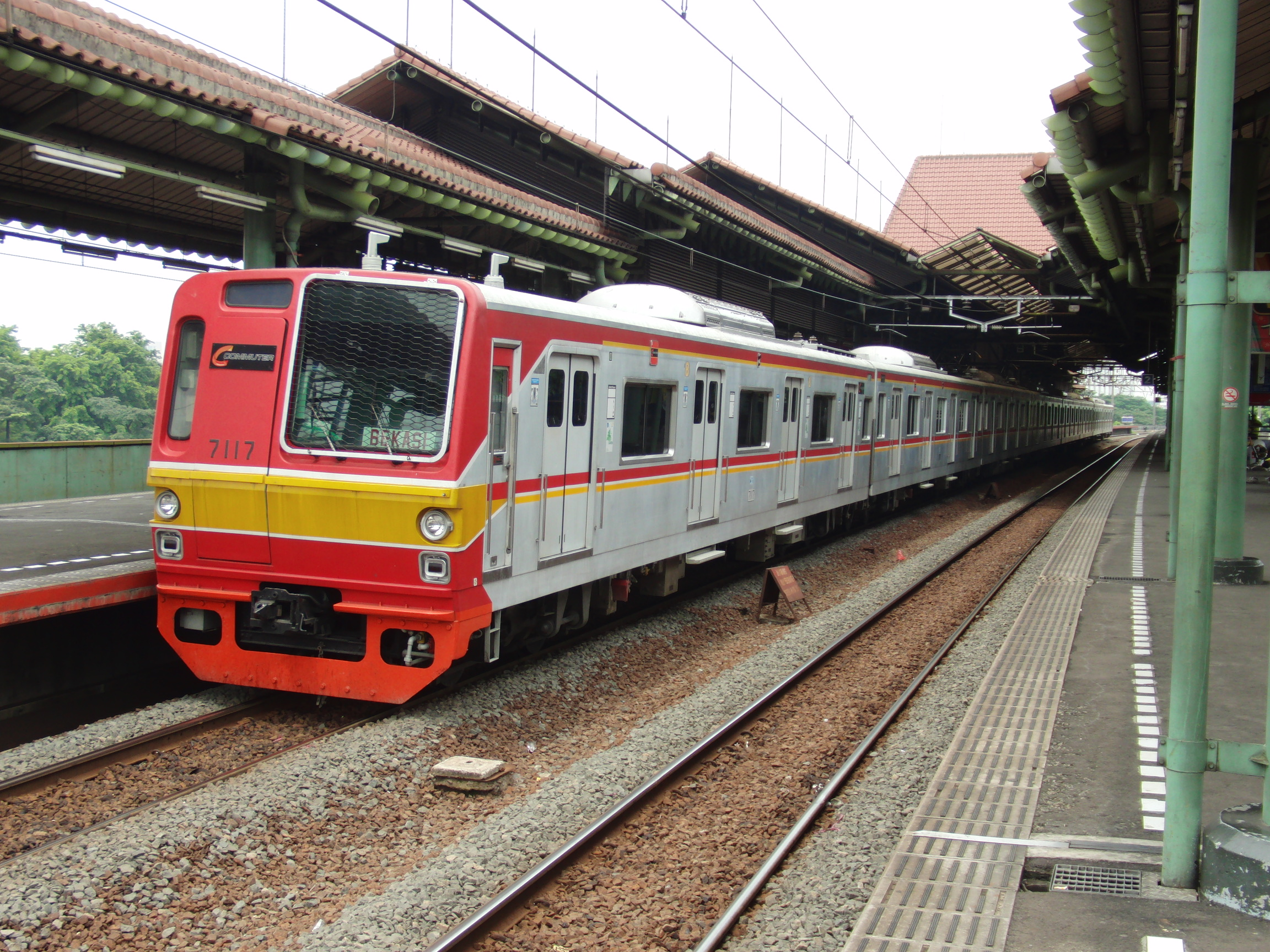 KRL Jabotabek Express train headed by car #7117 at Gambir Station, Jakarta